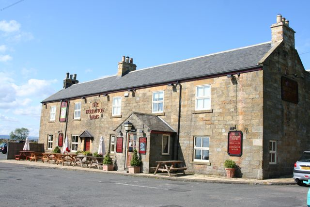 The Errington Arms at Stagshaw, near to Halton, Northumberland, Great Britain. On a Roman route north towards High Rochester and Scotland, this is the site of the Roman Portgate, a gate in Hadrian's Wall that had to be made to accommodate the existing route northwards. In medieval times the road became known as Dere Street. The remains of the gate lie between the Errington Arms and the roundabout on the edge of which this photograph was taken.